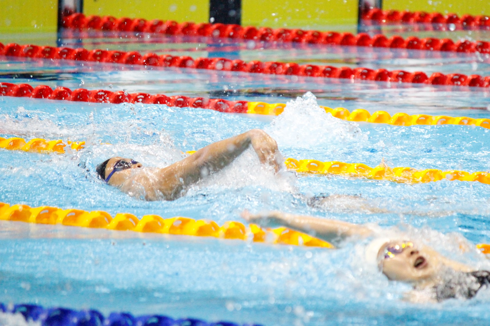 Chloe Kennedy Anne Isleta (2nd from right) makes a Bronze medal finish in Women’s 200m Backstroke Swimming competition of the 30th South East Asian Games. (Gabriela Liana S. Barela/PIA 3)